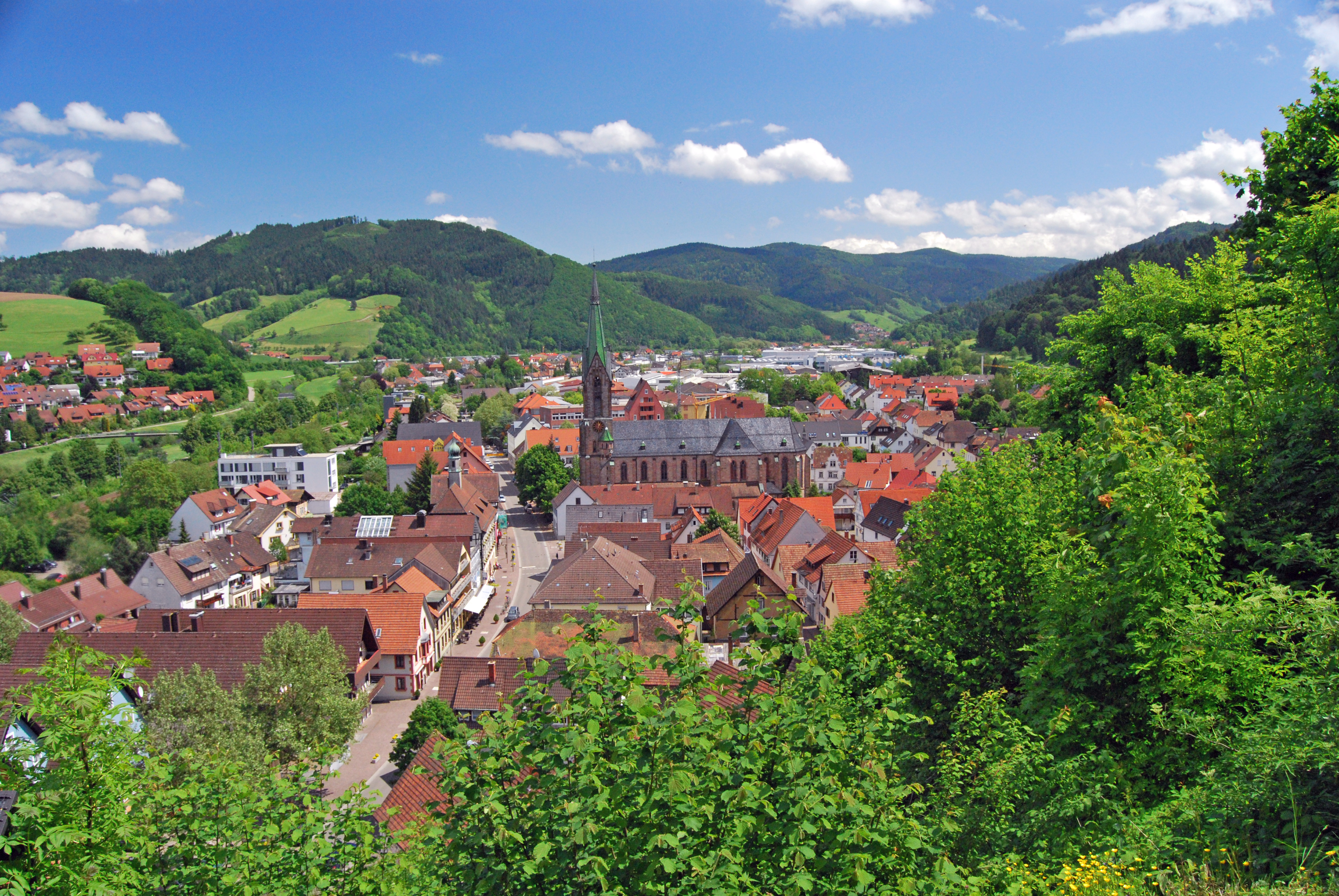 Hausach